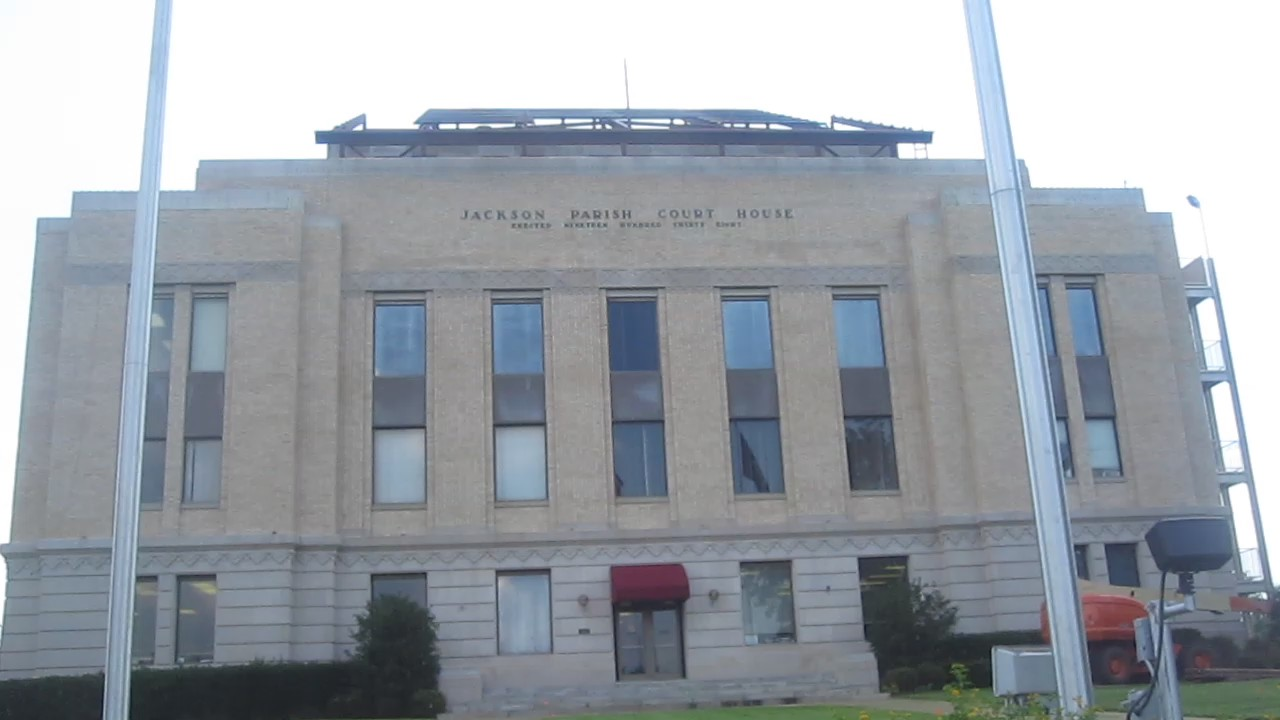 Jackson Parish, LA, Courthouse in Jonesboro